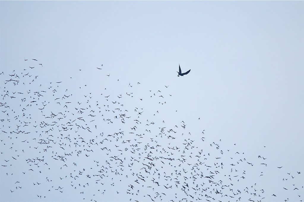 Bat Hawk (Macheiramphus alcinus) with a caught bat in its talons